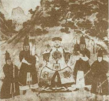 Wu Sangui, a military general during Ming and Qing dynasty